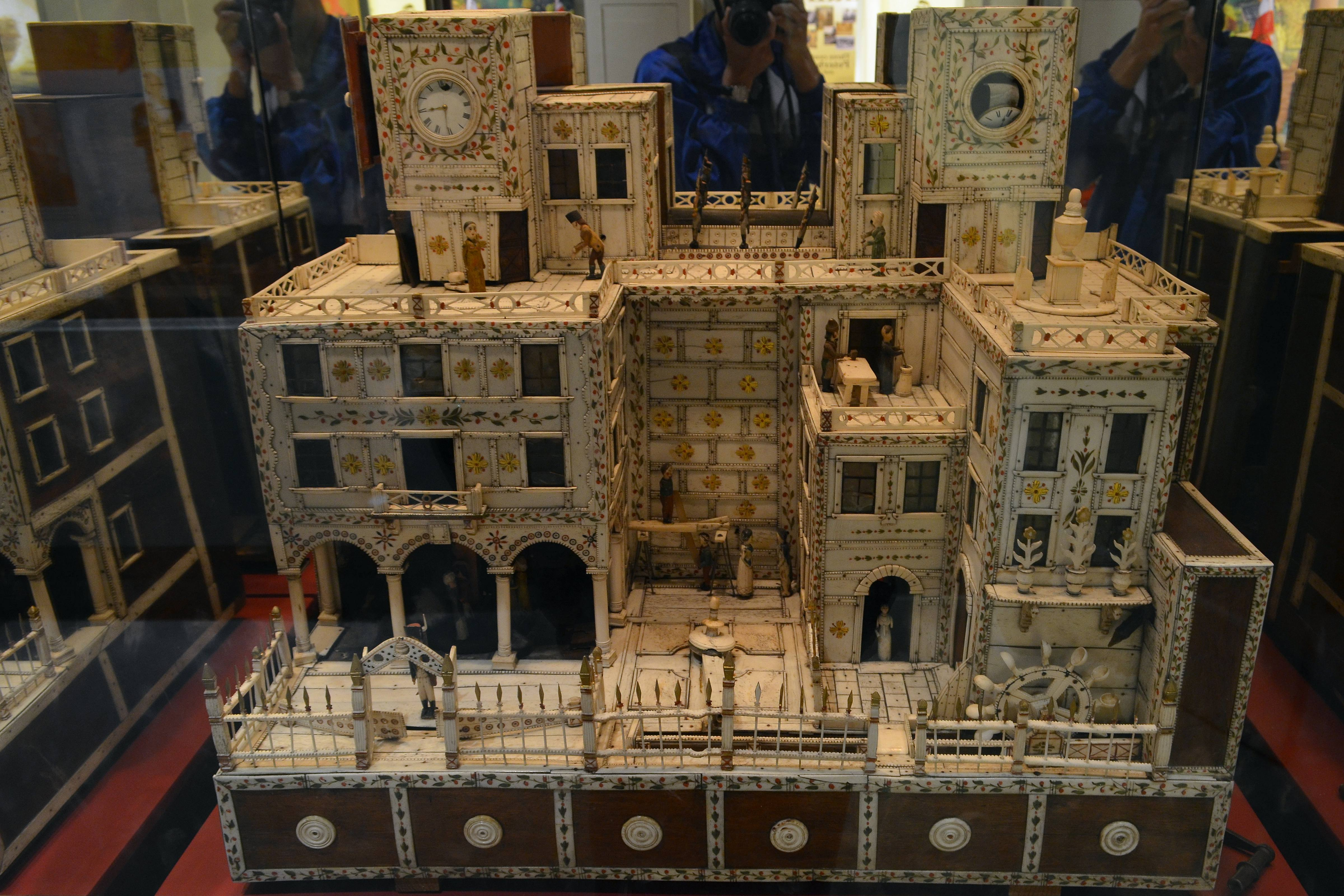 Norman Cross doll house at Peterborough Museum in July 2017.